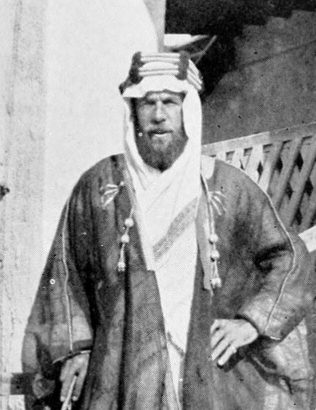 Harry St. John Bridger Philby (1885-1960) in Arab robes.